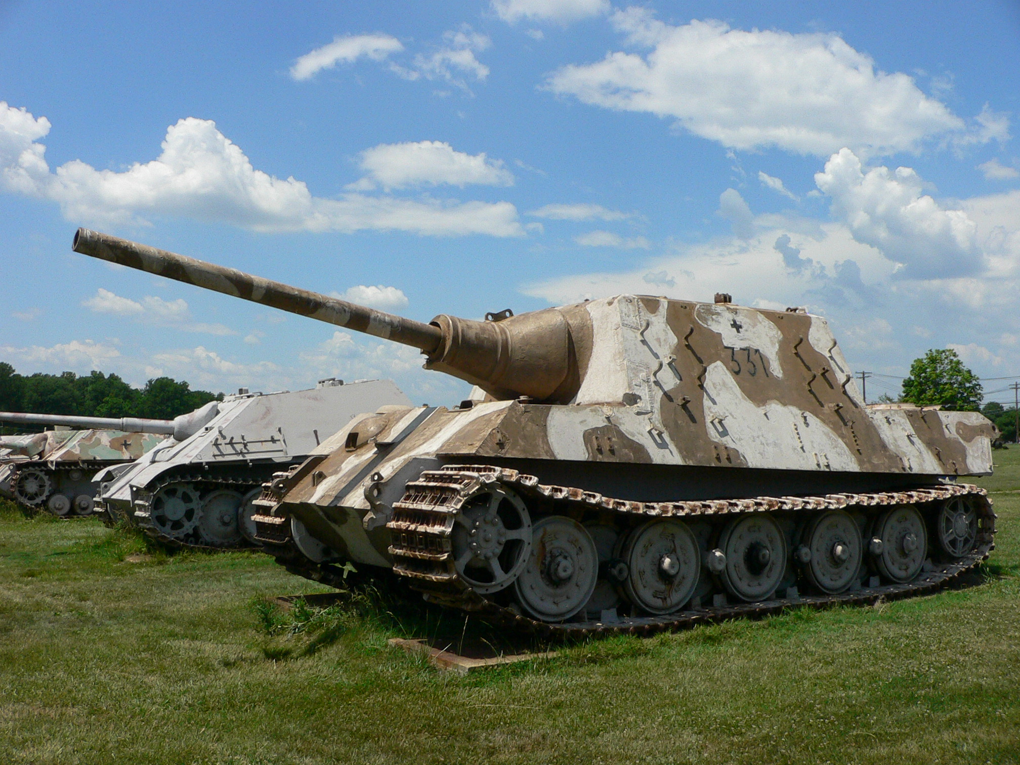 Picture taken by myself, Mark Pellegrini, at the United States Army Ordnance Museum (Aberdeen Proving Ground, MD) on June 12, 2007.